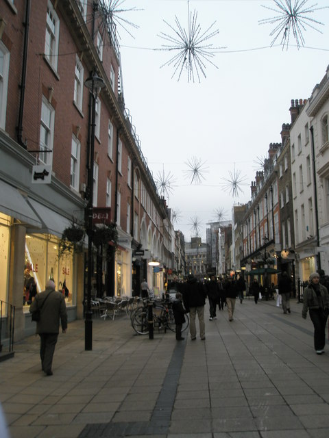 South Molton Street